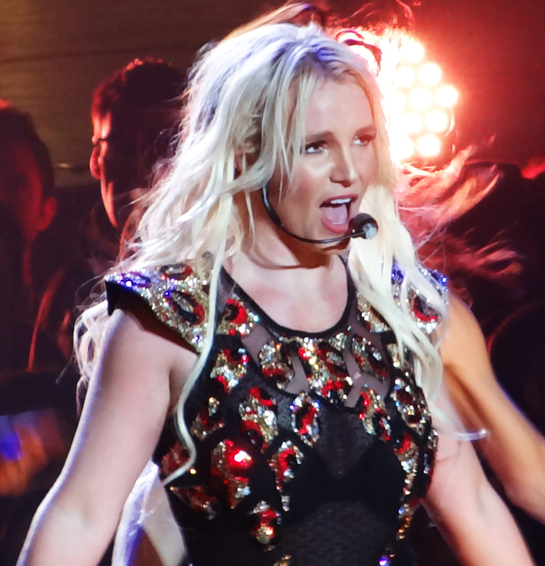 Spears